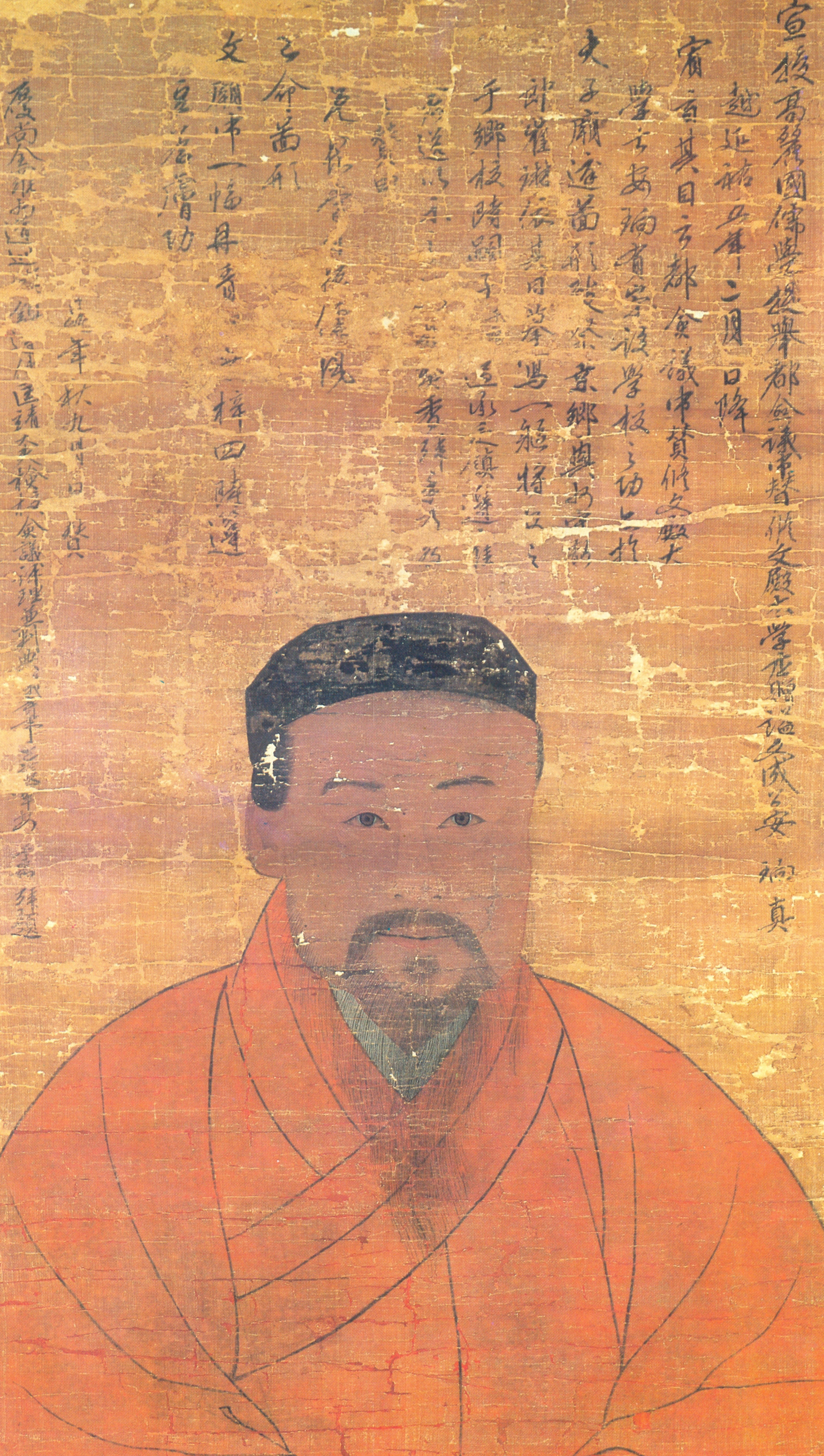 An Hyang